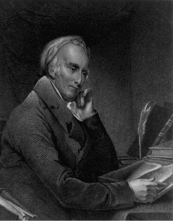 Half-length portrait of Dr. Benjamin Rush, a Founding Father of the United States.